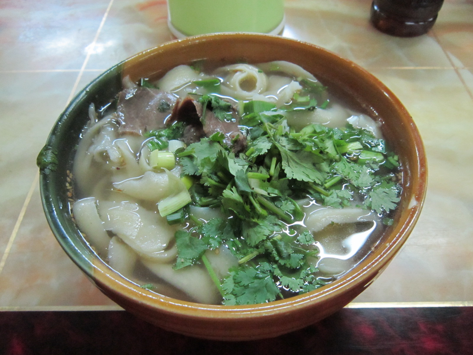 Halal beef knife-shaved noodle